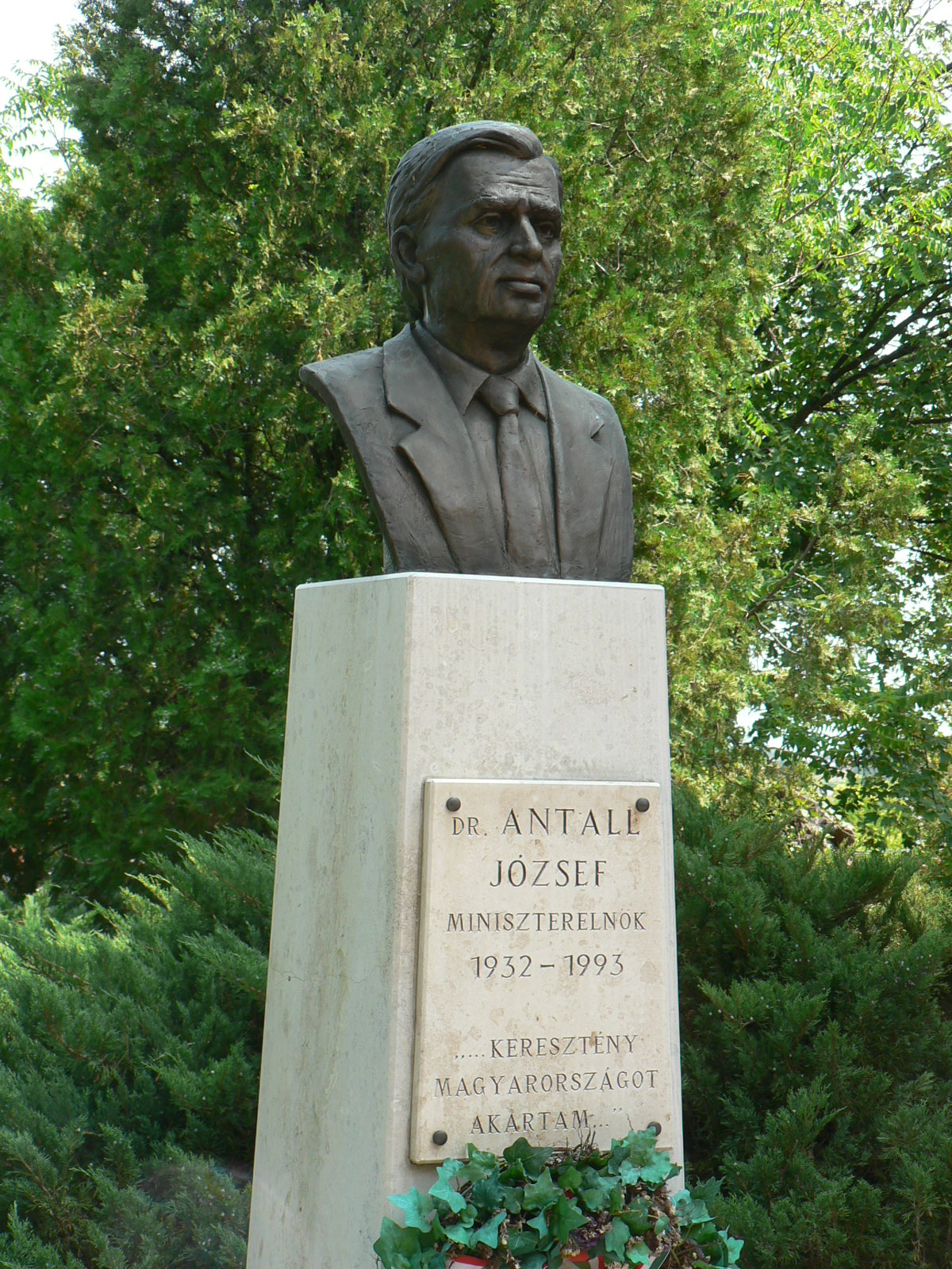 Antall József szobra Paloznakon